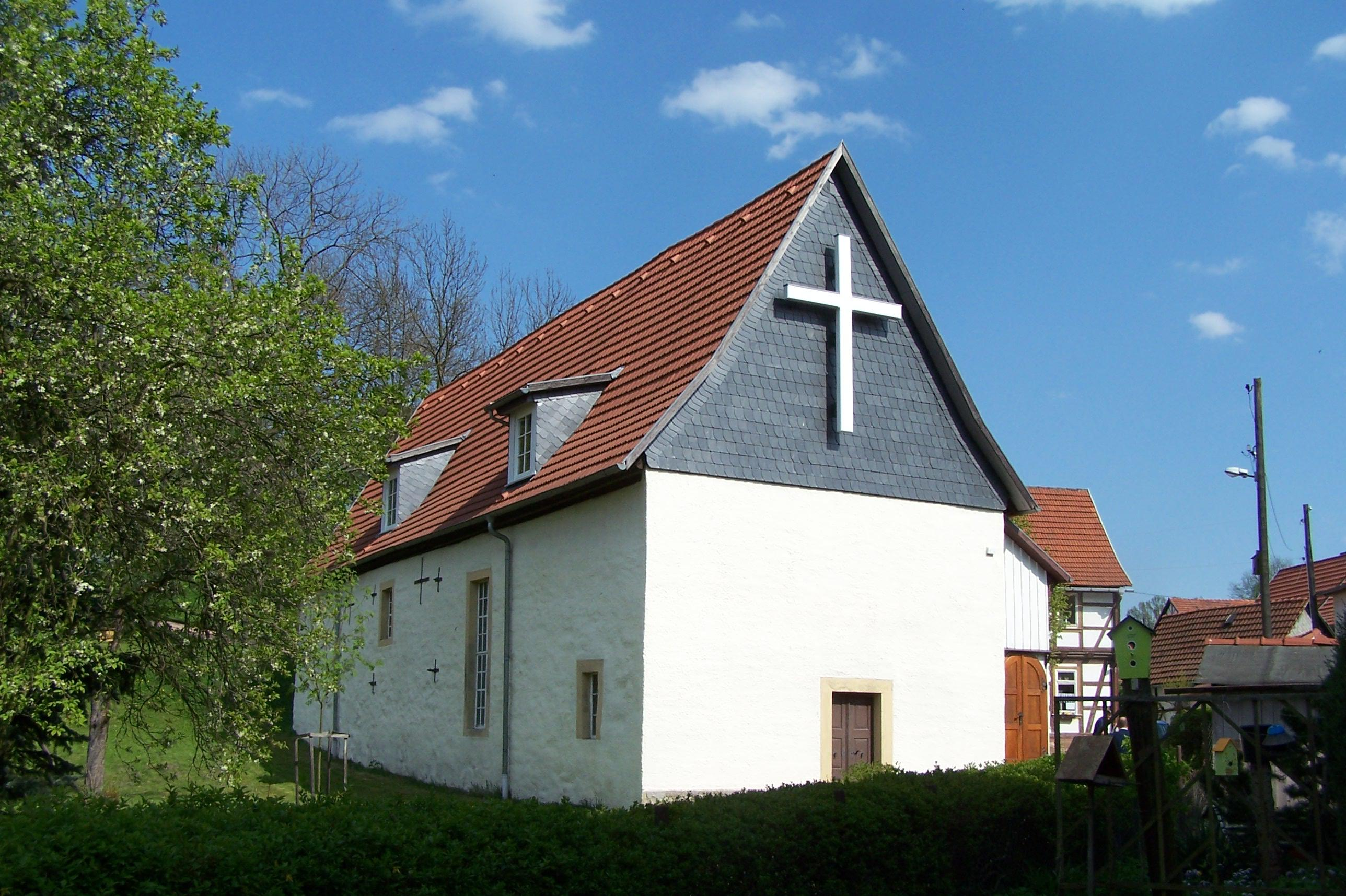 The church in Farnroda village.